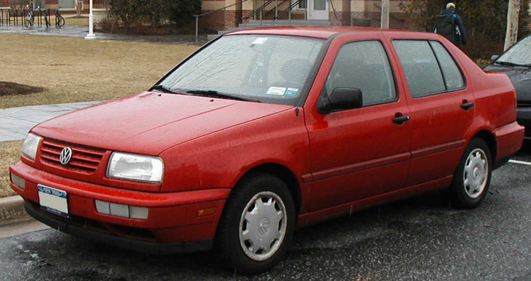 1996-1998 Volkswagen Jetta photographed in College Park, Maryland, USA.